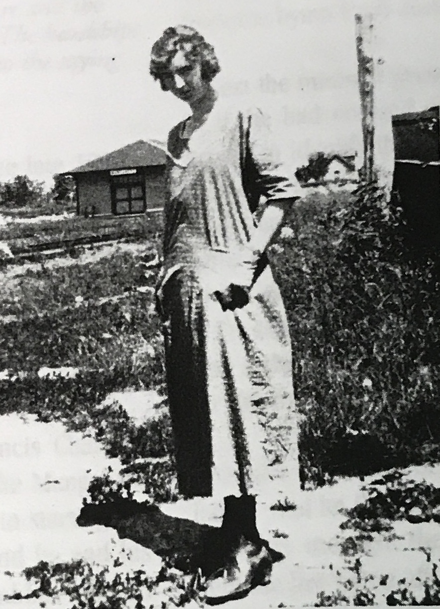 School Teacher Anna Dugan and Manganese, Minnesota, Soo Line Depot